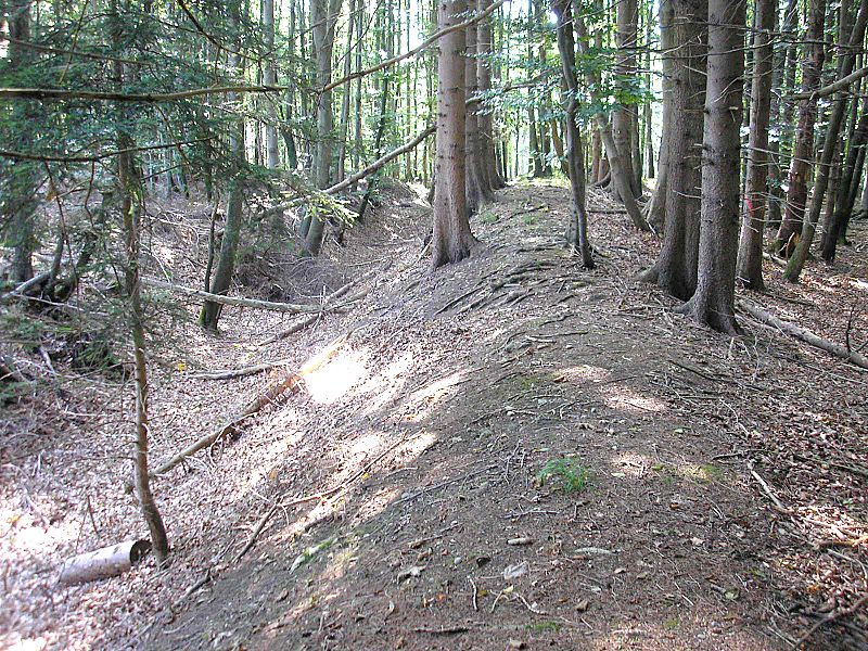 Early Middle Ages hill fort "Burg" between Unterfinning and Windach (Landkreis Landsberg am Lech, Upper Bavaria, Germany). The central earthworks, looking west